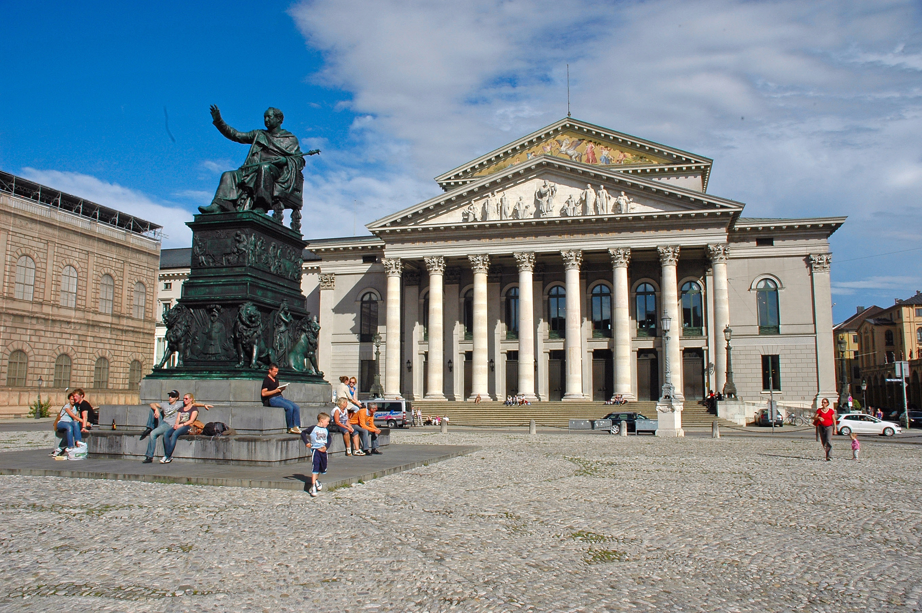 National Theatre in Munich